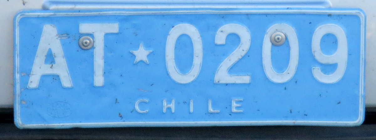 Chilean registration plate in format 2: technical assistance